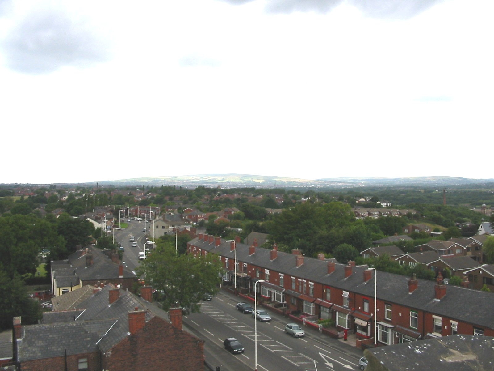 Kearsley looking north taken from St Stephens Church tower. Taken by Geotek 2004